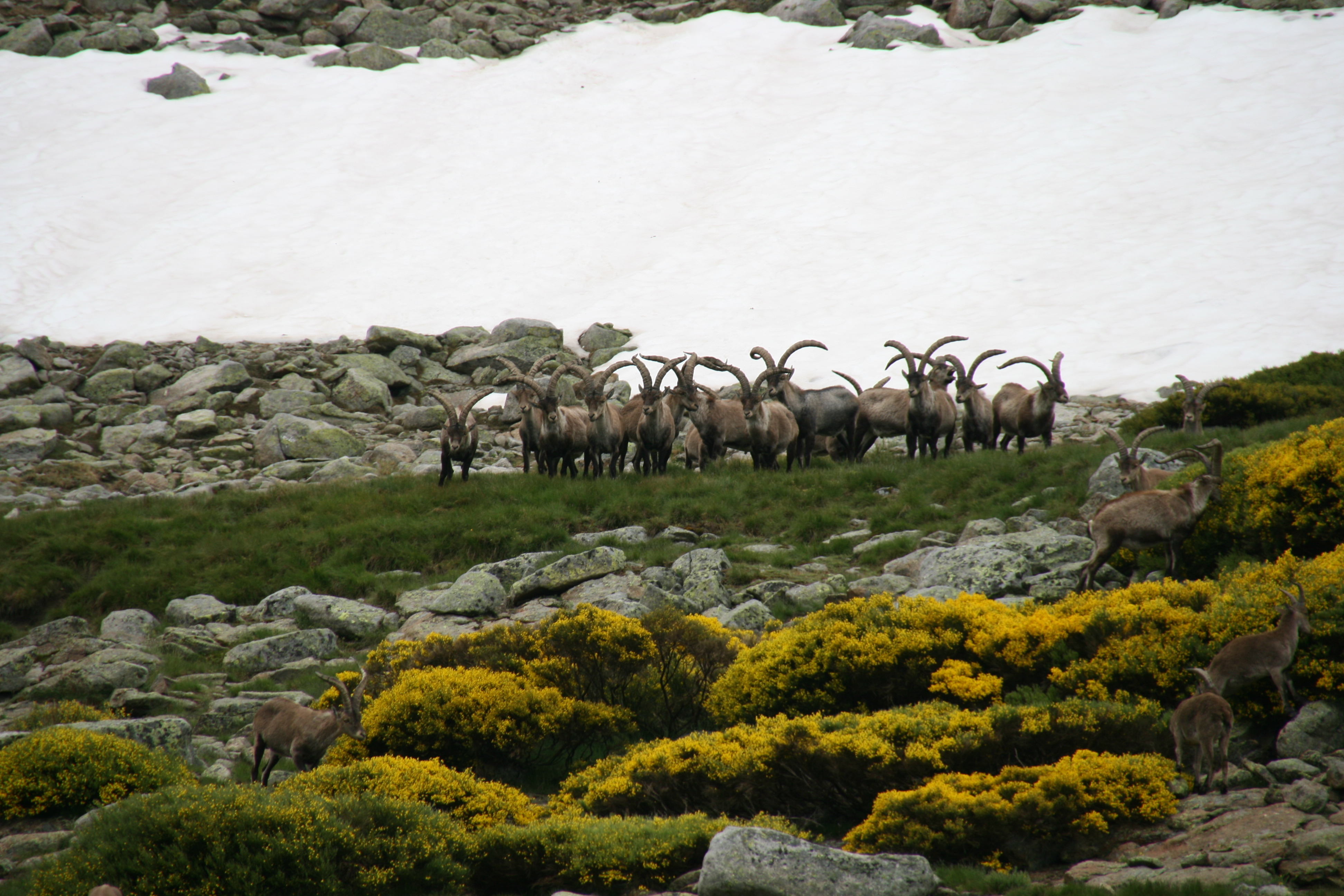 Circo de Gredos is a glaciar circus over plutonic rocks. It is in the Sierra of Gredos in the centre of the Spain. This is a photography of a Special Area of Conservation in Spain with the ID: ES4110002. Natura2000 entry, EEA entry